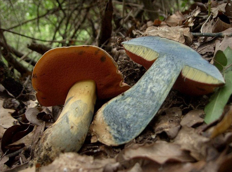 section of Boletus lupinus - Lajatico (PI) - 10/2006